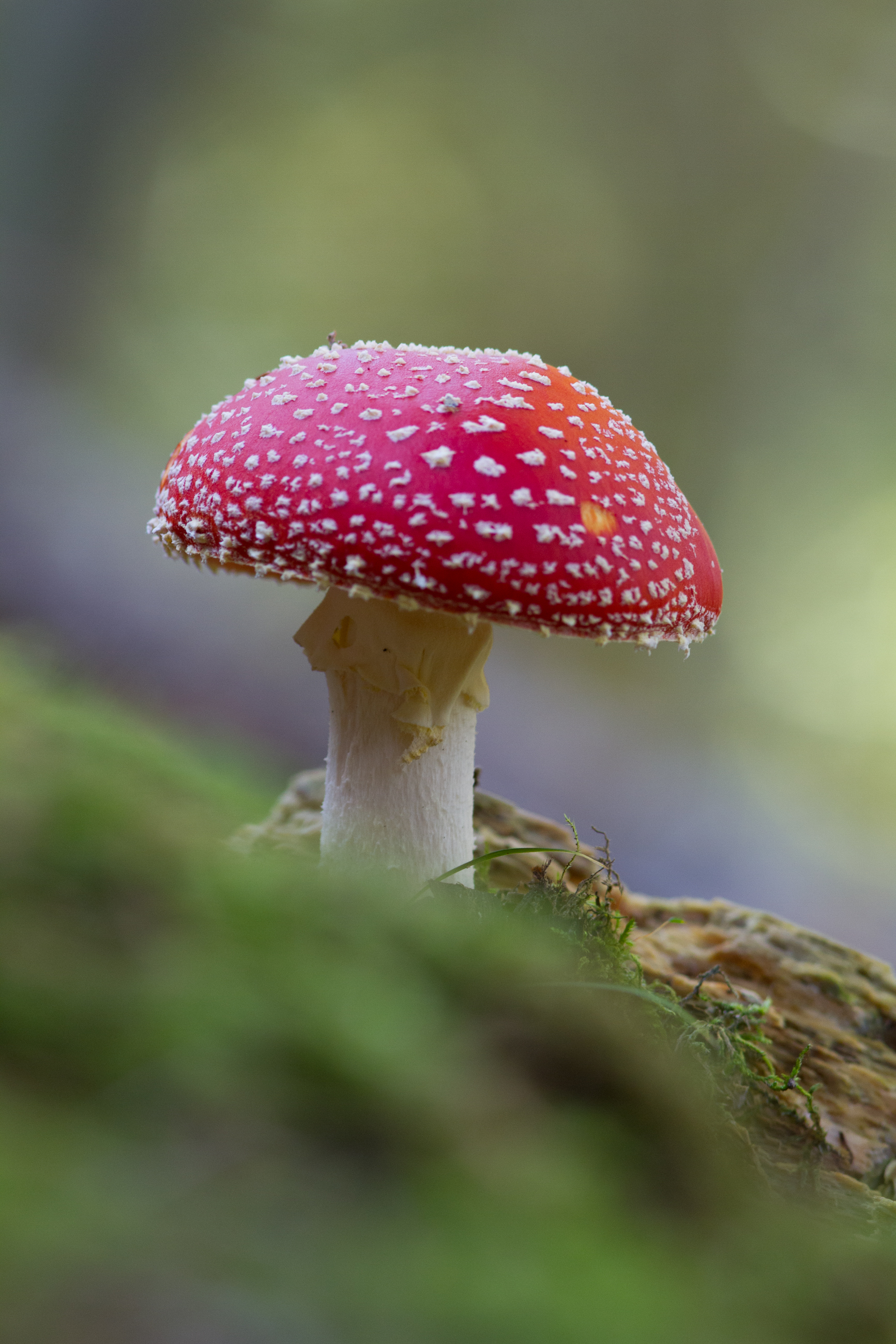 Amanita muscaria